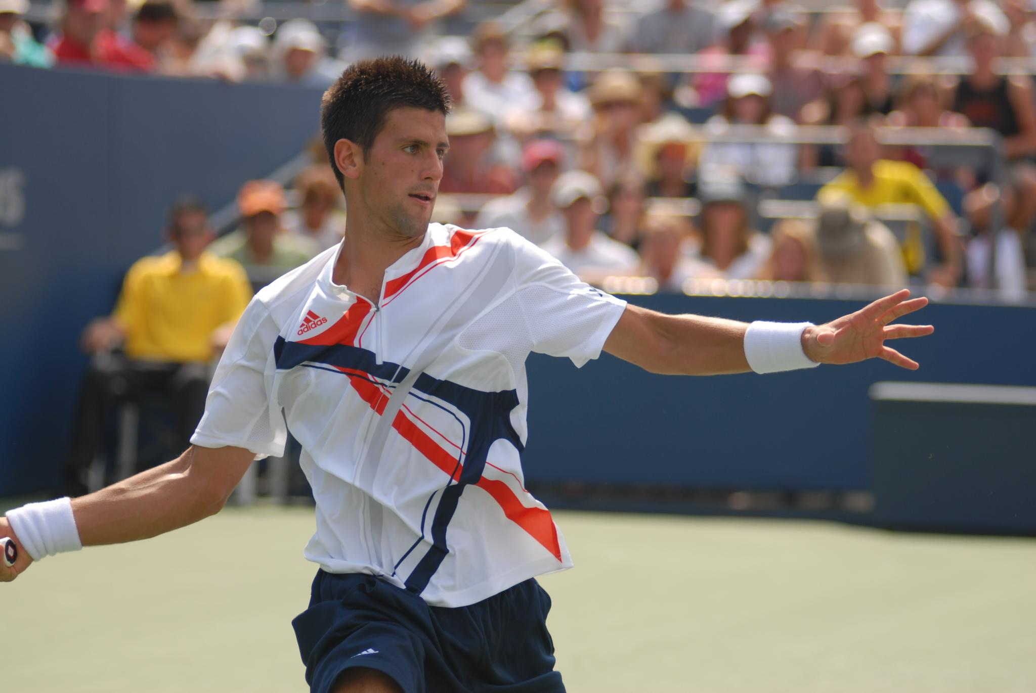 Novak Đoković at 2007 US Open